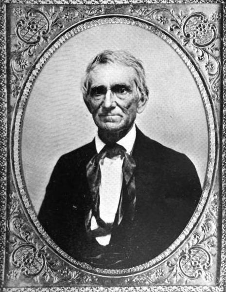 Newspaper publisher Frederick Heiskell (1786–1882), cofounder of the Knoxville Register, which was published in Knoxville, Tennessee, USA, from 1816 until 1863.